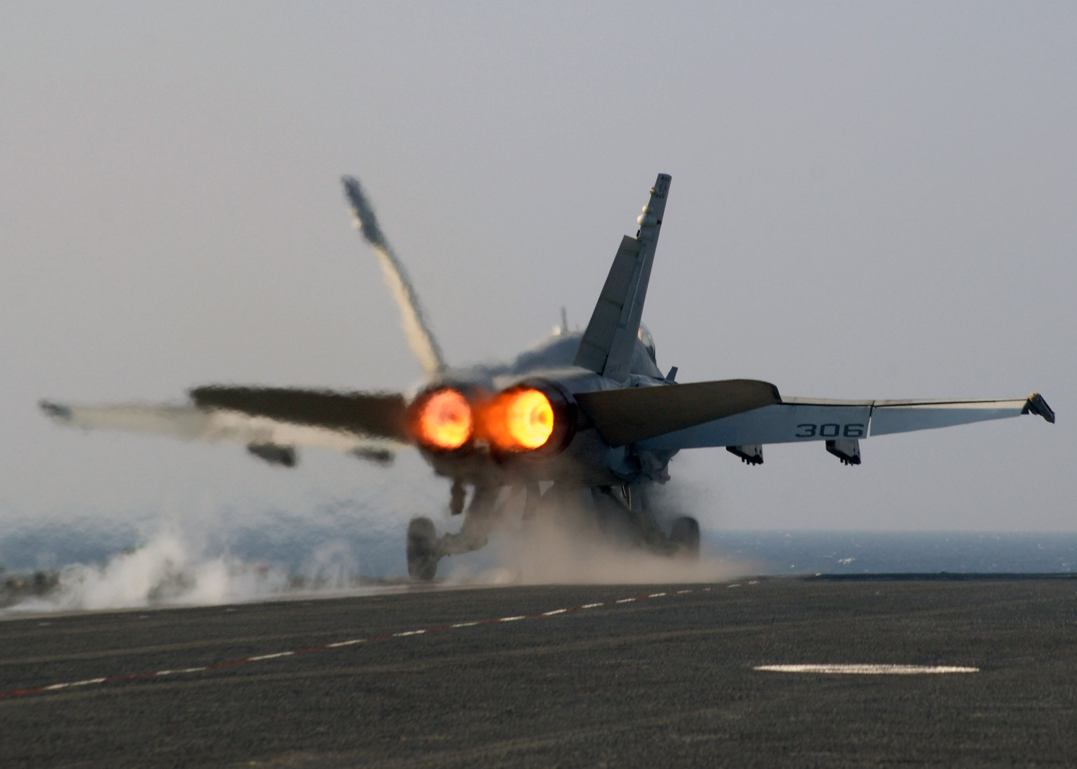 An F/A-18 Hornet assigned to the "Valions" of Strike Fighter Squadron (VFA-15) launches from the flight deck of nuclear powered aircraft carrier USS Theodore Roosevelt (CVN-71). Roosevelt is underway conducting carrier qualifications.